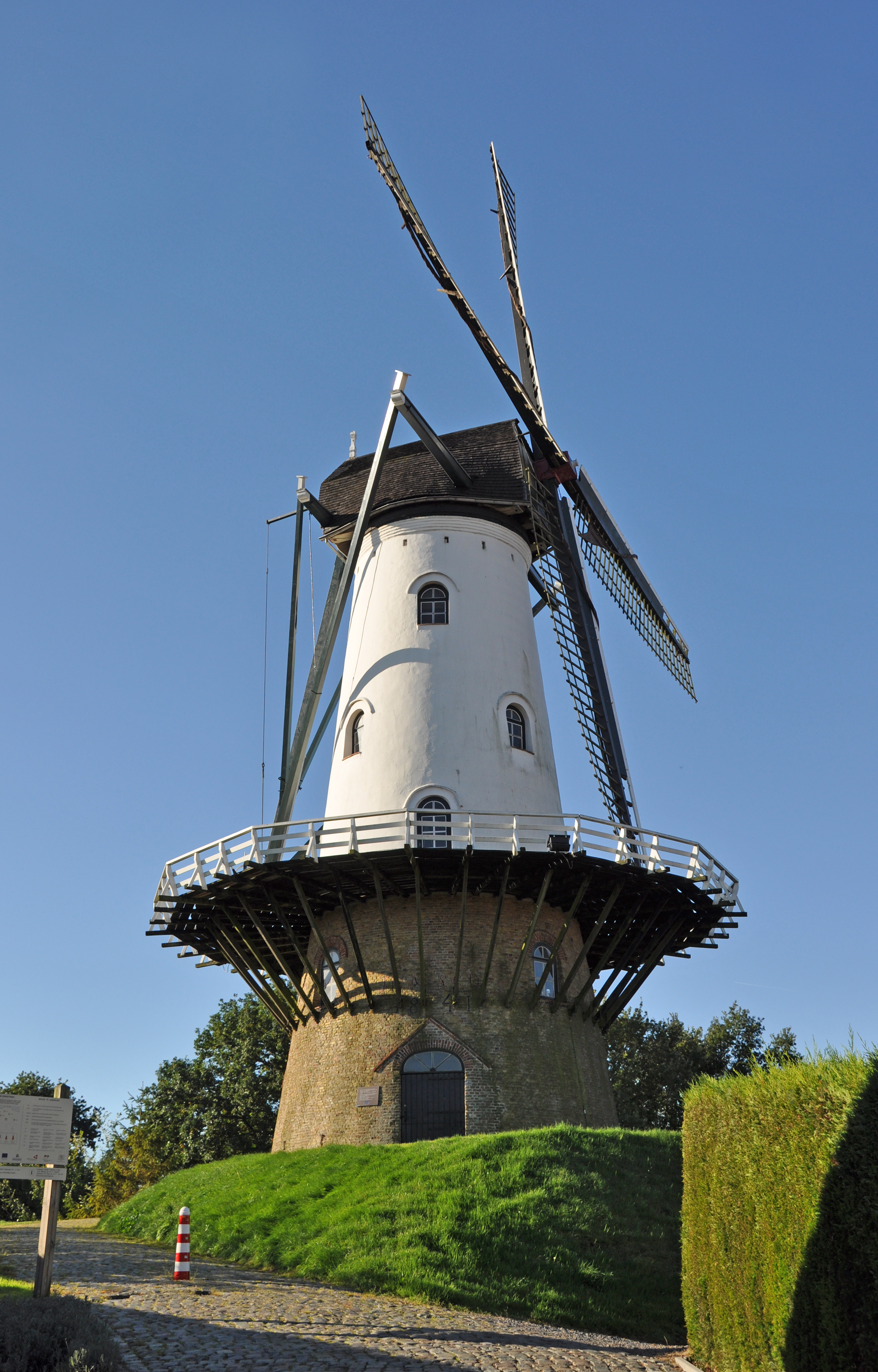 IJzendijke (the Netherlands): windmill "De Witte Juffer"